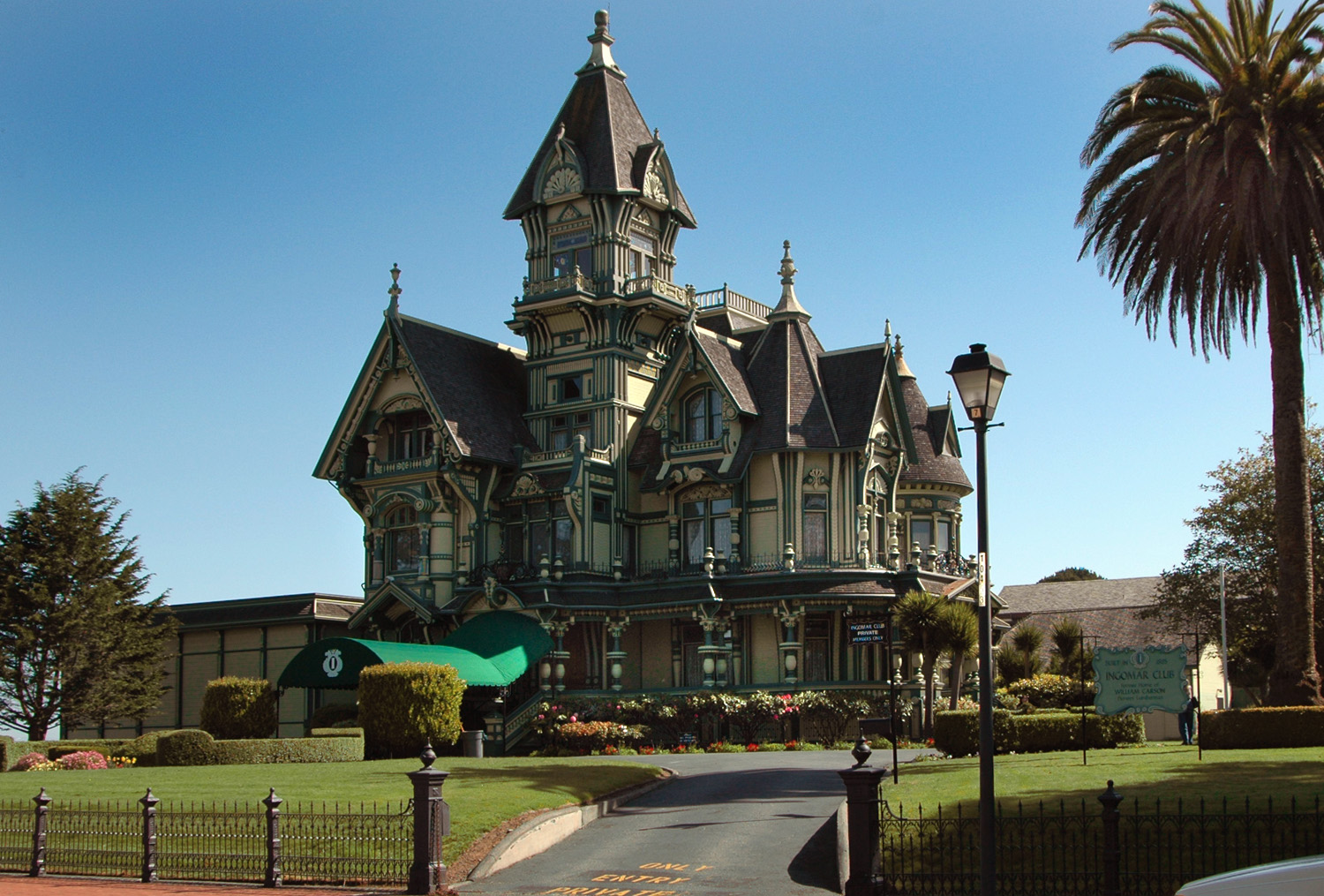 The Carson Mansion is a Queen Anne Victorian mansion at 143 M Street in Eureka, Northern California. Built for lumber baron William Carson, the building is a private club, not open to the public and is not a registered state or historic landmark. Taken with a Nikon D70.